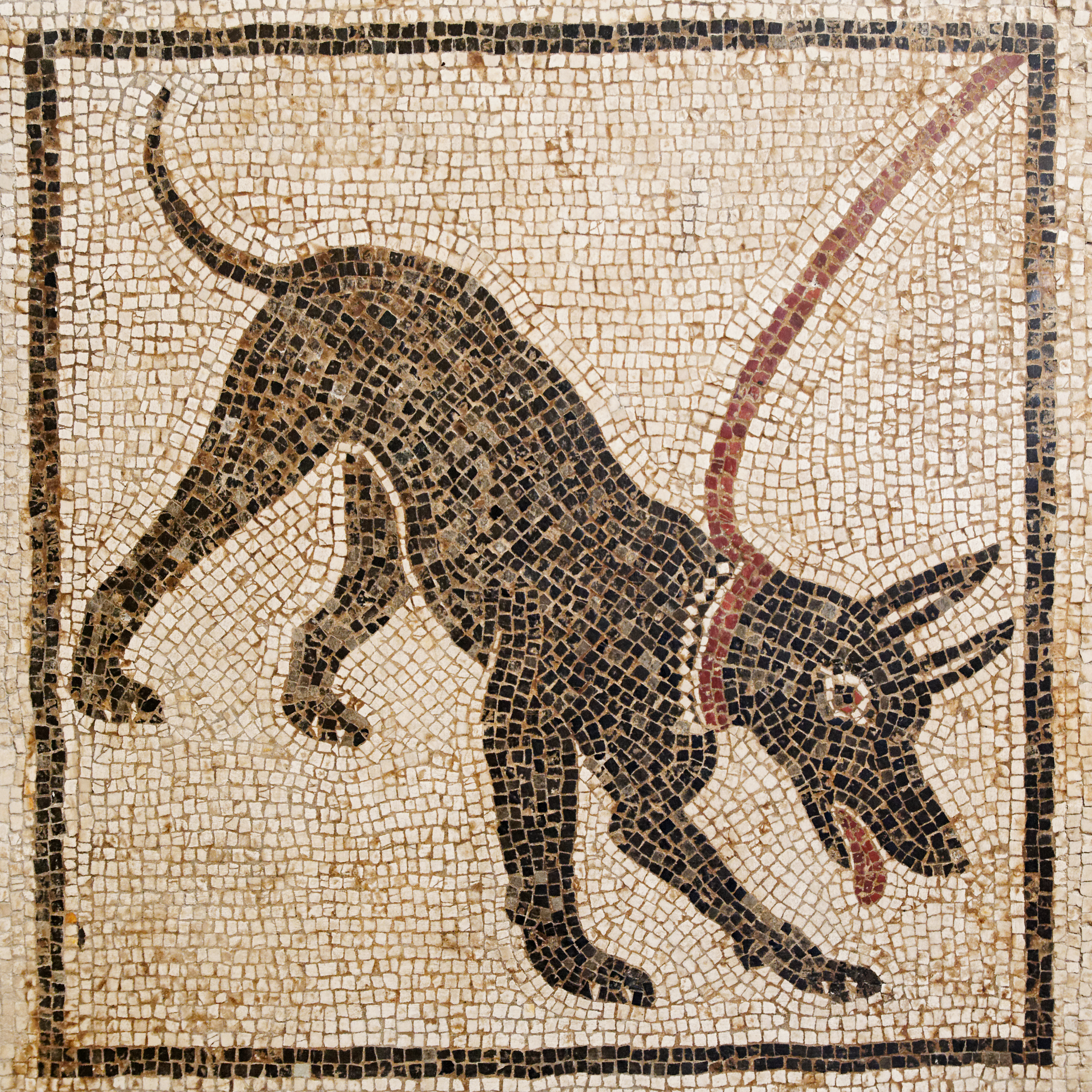 ‘Cave canem’ (beware of the dog) mosaic.. From Pompeii, Casa di Orfeo, VI.14.20